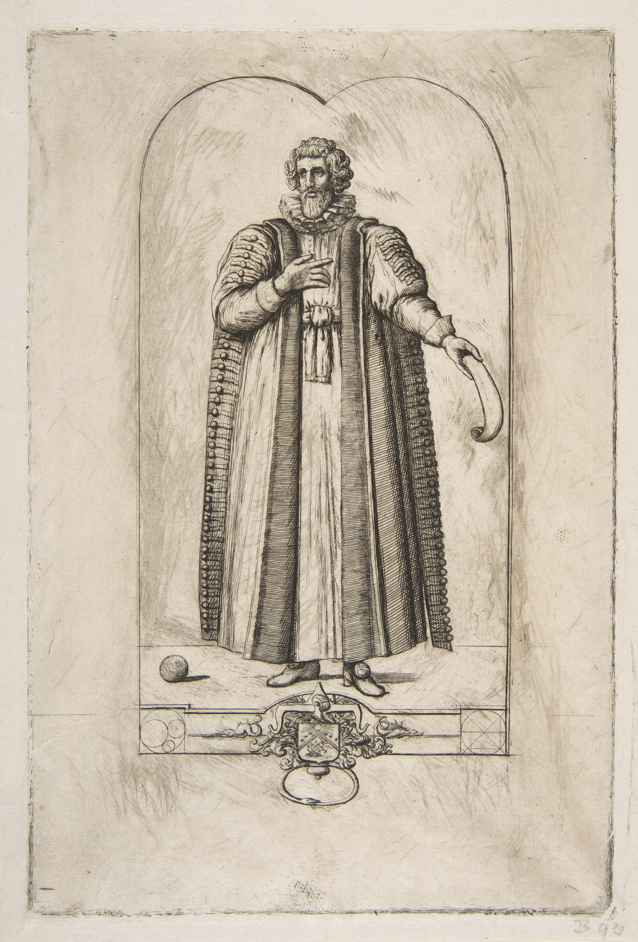 Print; Prints